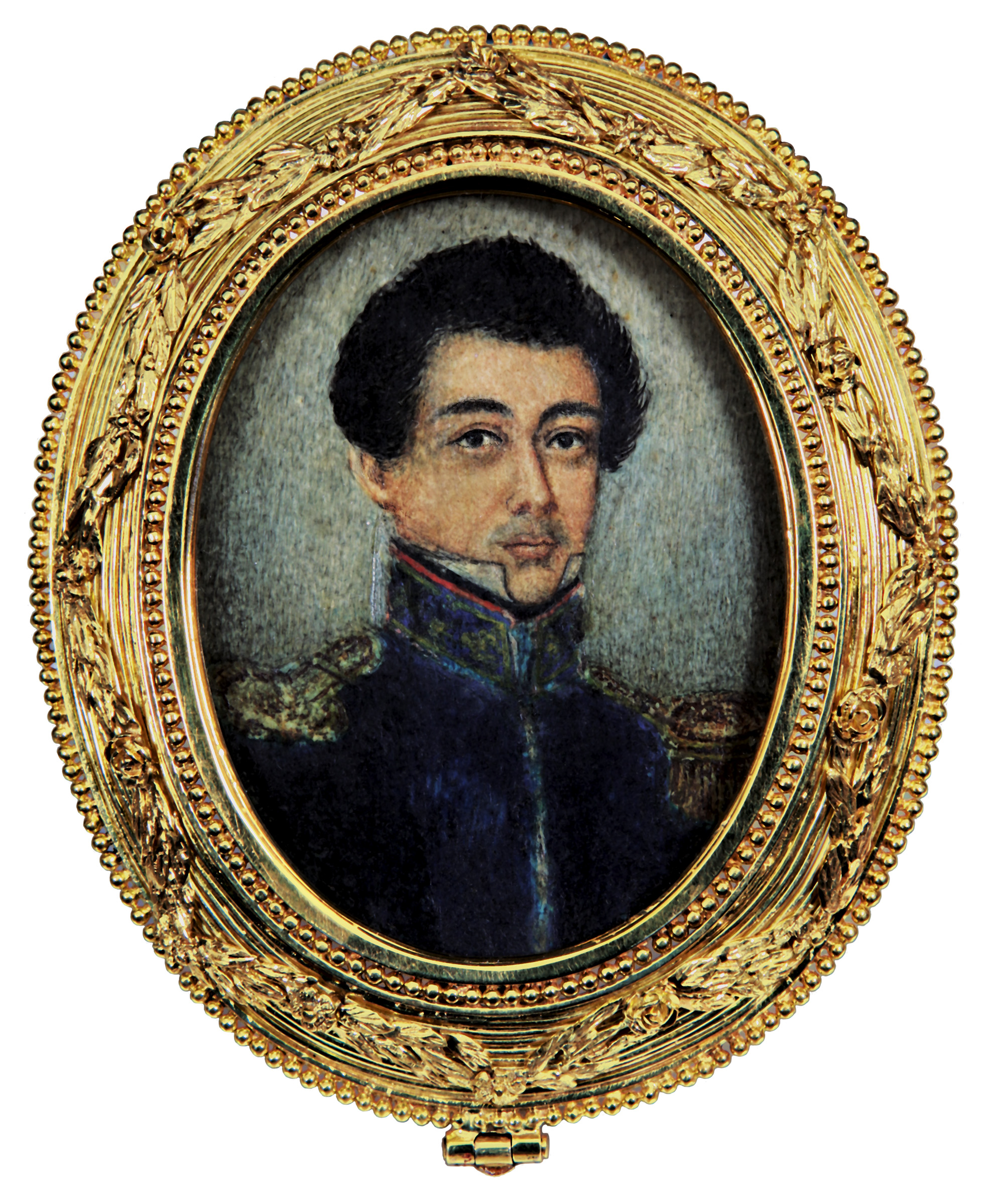 Self portrait (1830s) of Damián Domingo (ca. 1790 - ca. 1832)